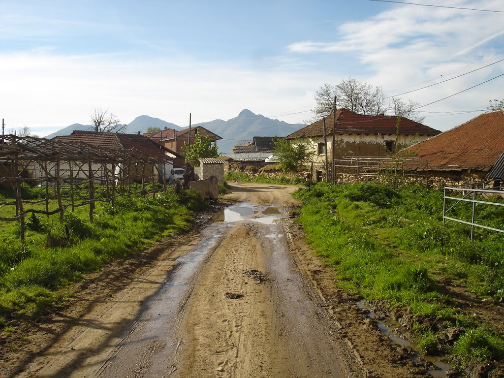 A road in the village of Desovo in Dolneni Municipality with Zlatovrv peak seen in the background, near Prilep, Macedonia